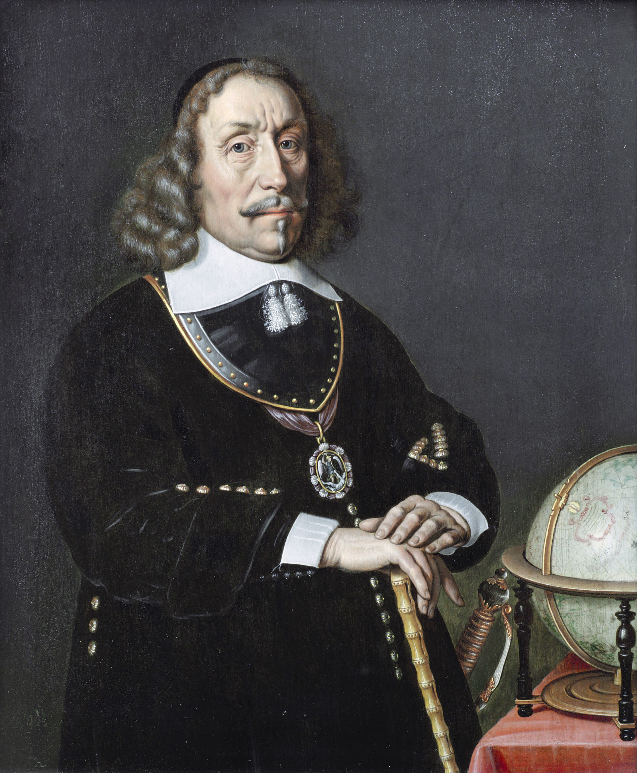 Witte Cornelisz. de With (1599–1658) oil on panel 39.5 x 32.5 cm signed b.l.: A.W